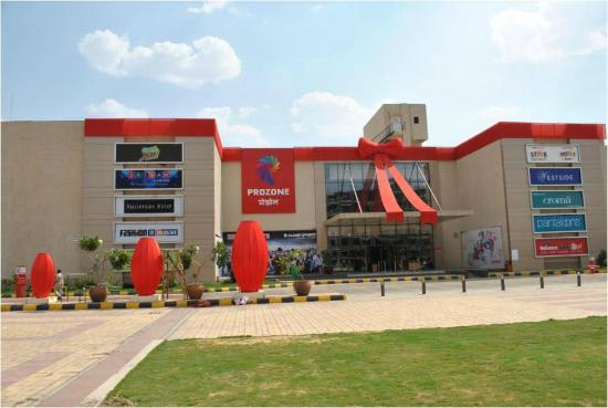 Prozone mall